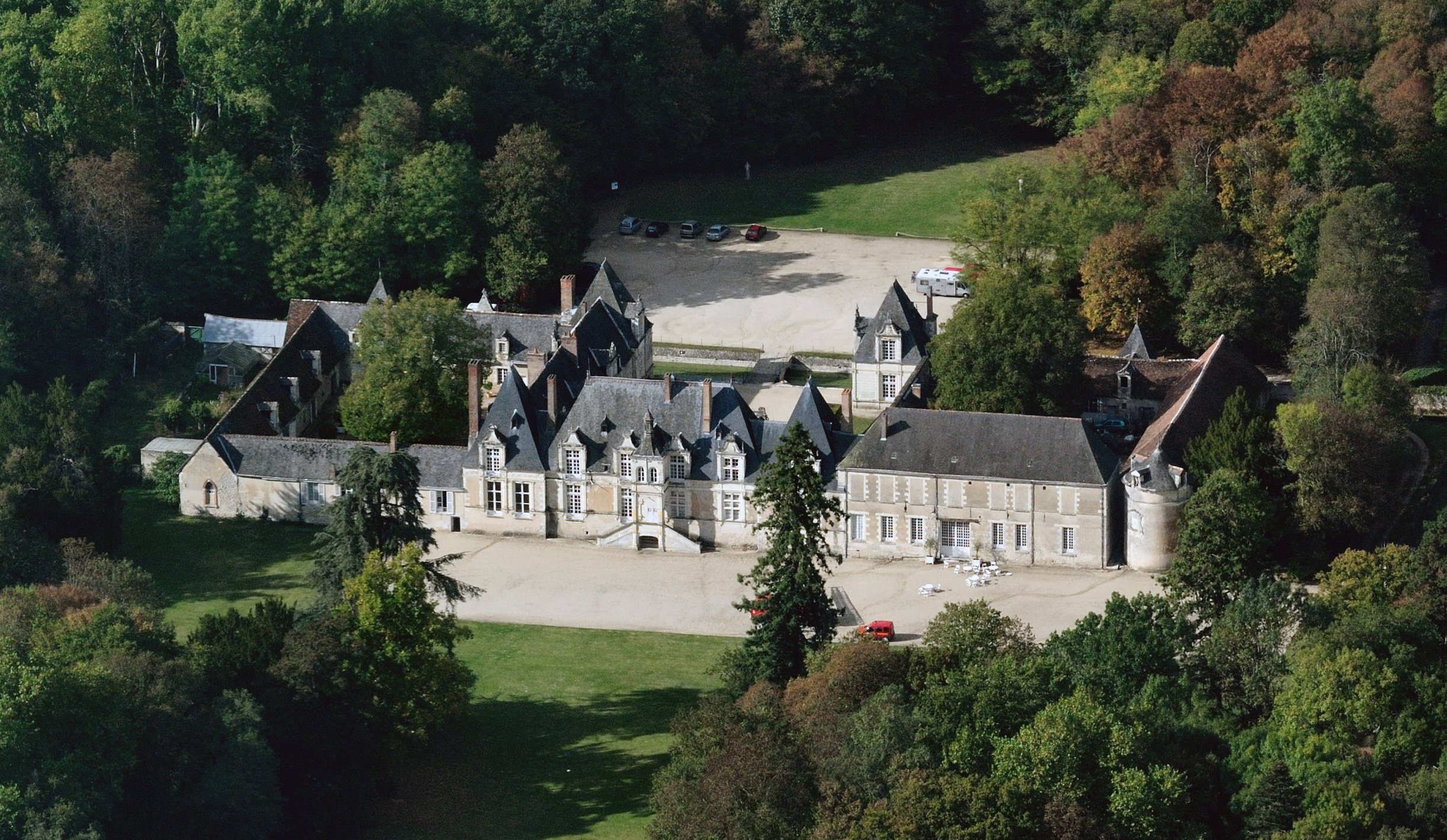 Aerial view of the Château de Villesavin, south-eastern aspect